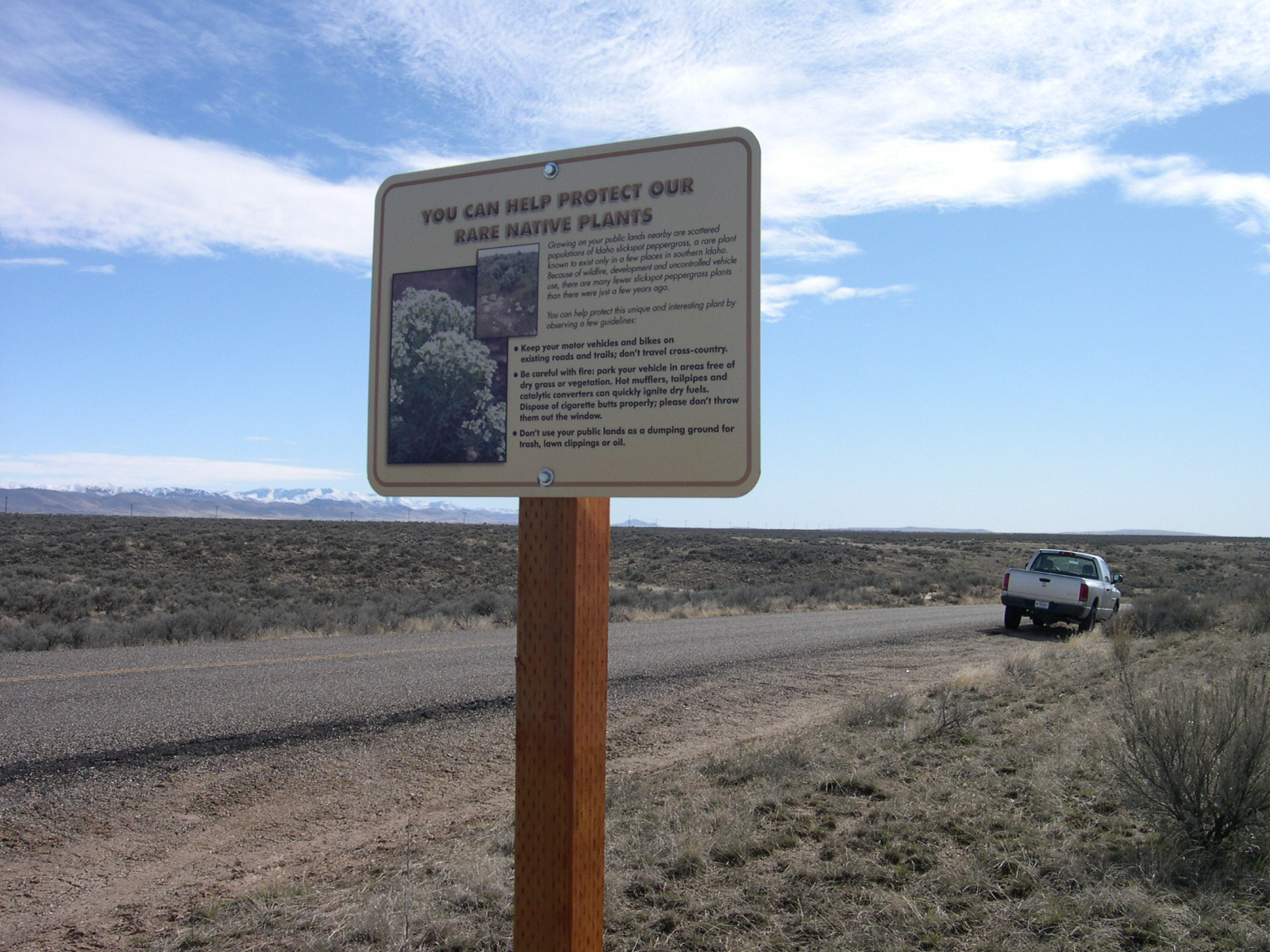 Lepidium papilliferum (slickspot peppergrass) sign on Snake River Plains- I took the photo that is on the sign and the sign's photo.